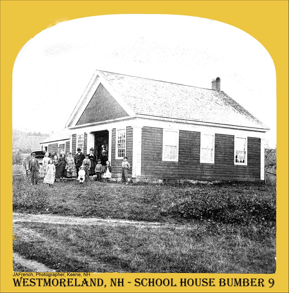 TITLE: Westmoreland School House Number 9, New Hampshire SUBJECT: Schools - NH - Westmoreland. Students - NH - Westmoreland DESCRIPTION: Stereograph of the Westmoreland School House Number 9, in Westmoreland NH. PUBLISHER: Keene Public Library and the Historical Society of Cheshire County DATE DIGITAL: 20100208 RESOURCE TYPE: stereographs FORMAT: image/jpg RESOURCE IDENTIFIER: HS435-P5470 RIGHTS MANAGMENT: No known copyright restrictions.